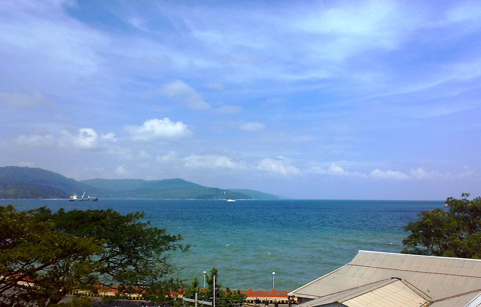 View from South Point, (Port Blair, India).